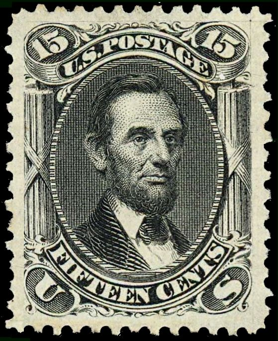 US Postage stamp: Abraham Lincoln, Memorial Issue of 1866, 15c, black.The first Lincoln postage stamp.